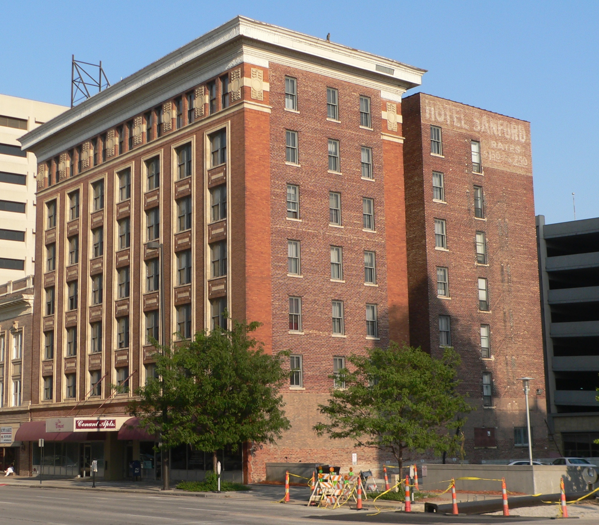 Sanford Hotel, now the Conant Apartments, located at 1913 Farnam Street in Omaha, Nebraska; seen from the northwest.